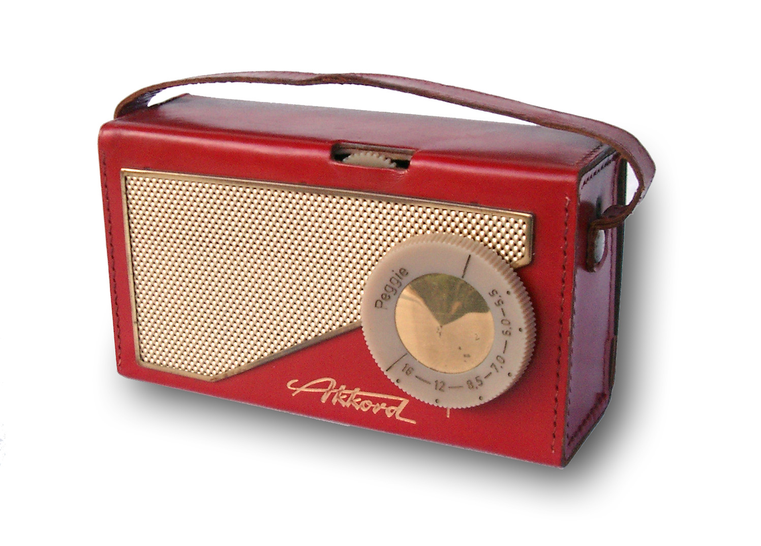 first in Germany sold transistor radio Akkord Peggie, 1957